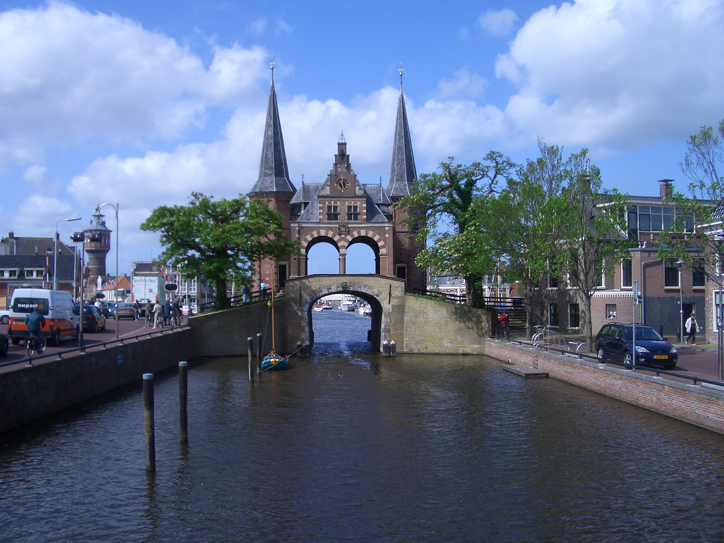 The waterpoort in Sneek, the Netherlands